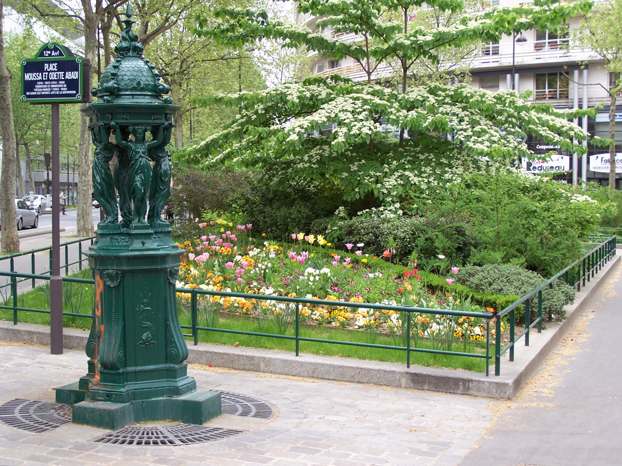 View of the square